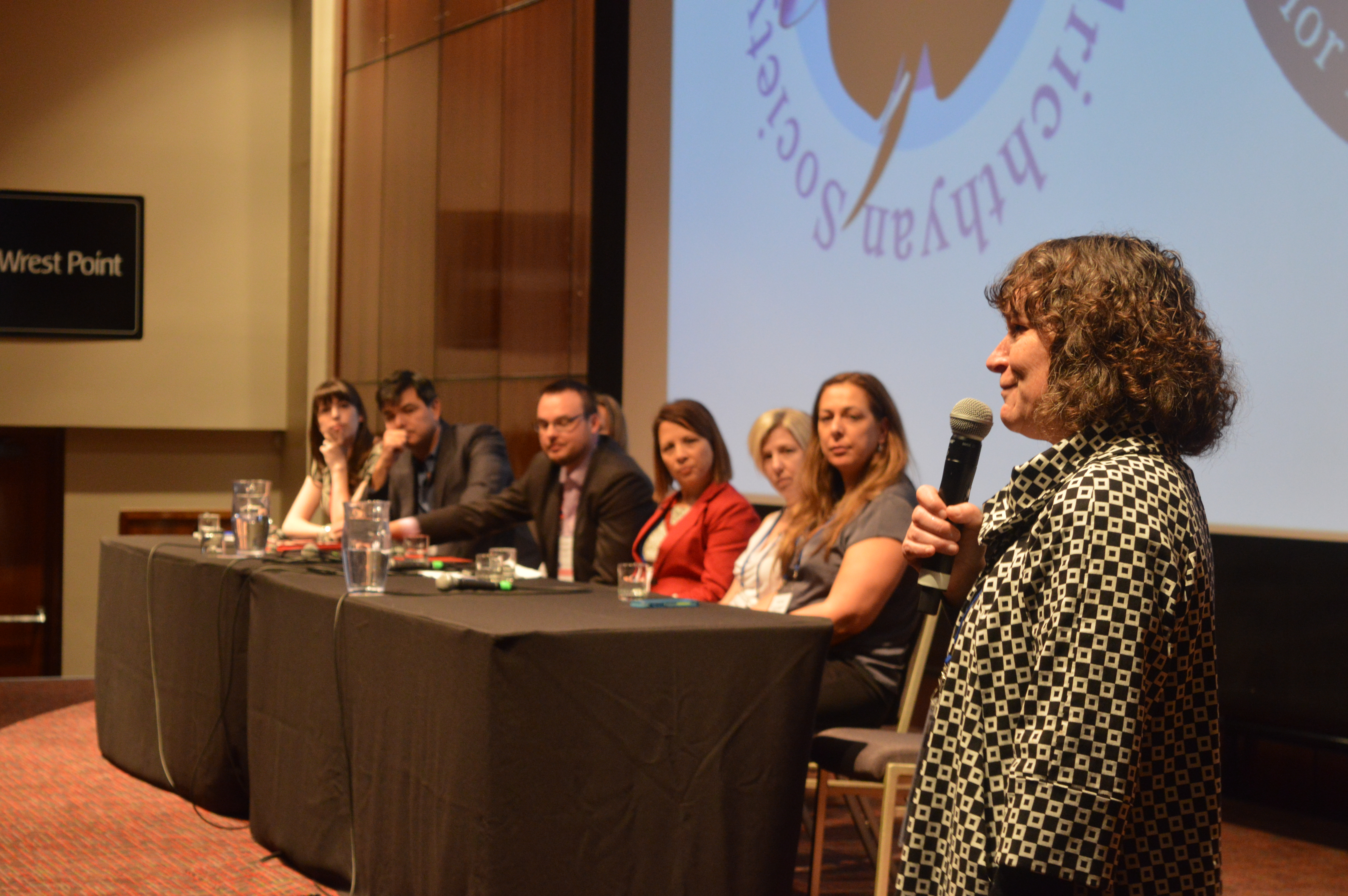 Brownyn Gillanders leads a gender equity forum at the 2016 joint conference of the Australian Society for Fish Biology and Oceania Chrondrichthyan Society in Hobart, Tasmania on September 5, 2016.